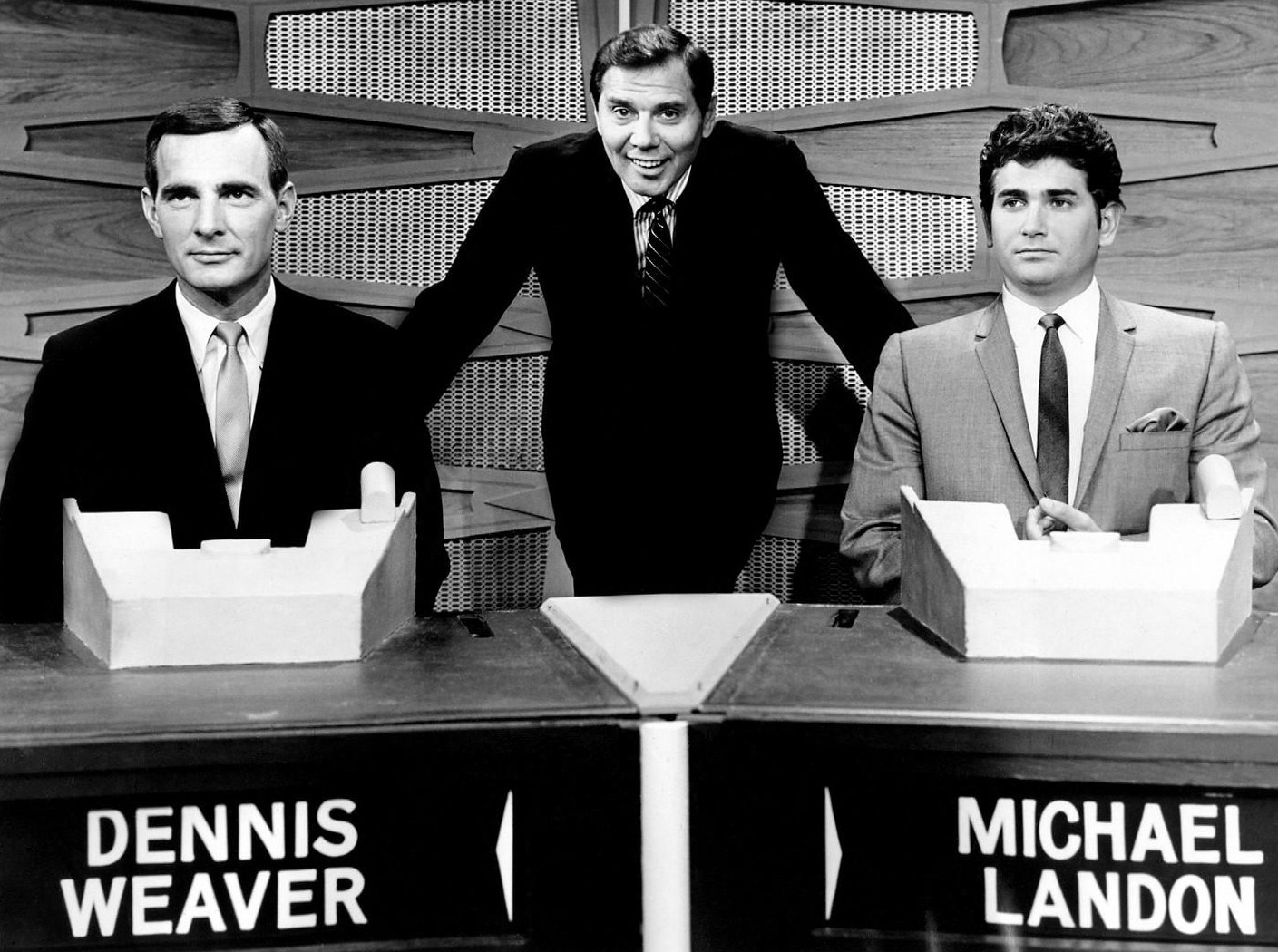 Photo of Gene Rayburn with Dennis Weaver and Michael Landon as celebrity team captains for a special edition of the television game program The Match Game.